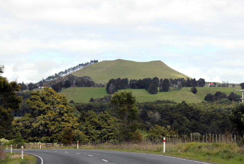 Te Ahuahu, the extinct volcano near Ohaeawai where Hone Heke (and later Tāmati Wāka Nene) had his pa in the New Zealand wars. The Battle of Te Ahuahu was fought on these slopes.